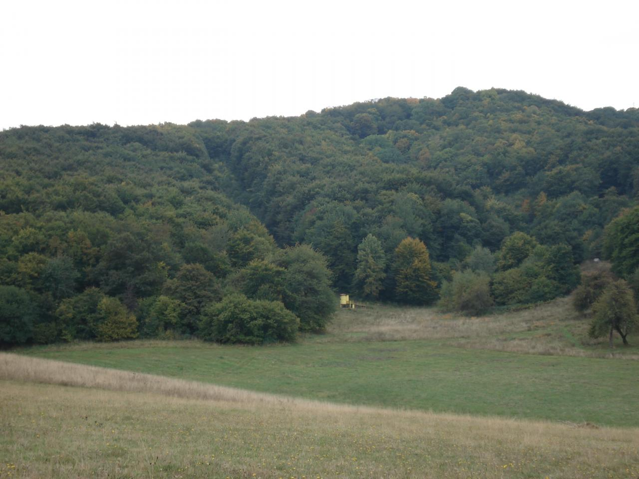 Bonsovi meadows, Lyulin mountain